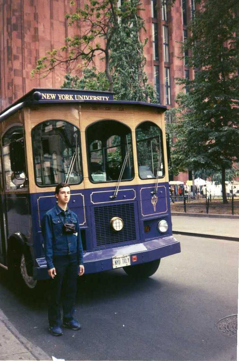 NYU "trolley" transports students around the campus. Now they use other types of vehicles.